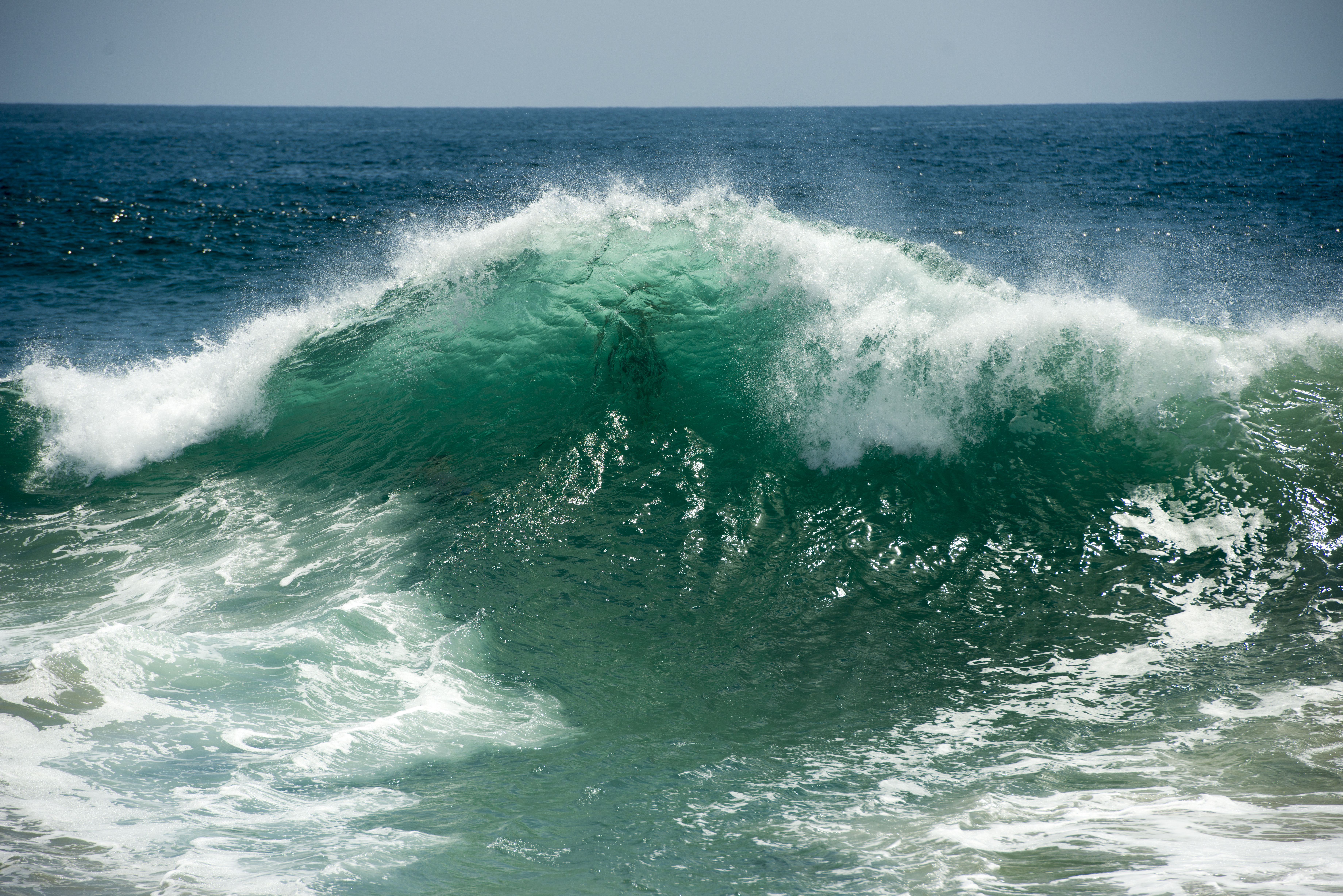 The Wedge!